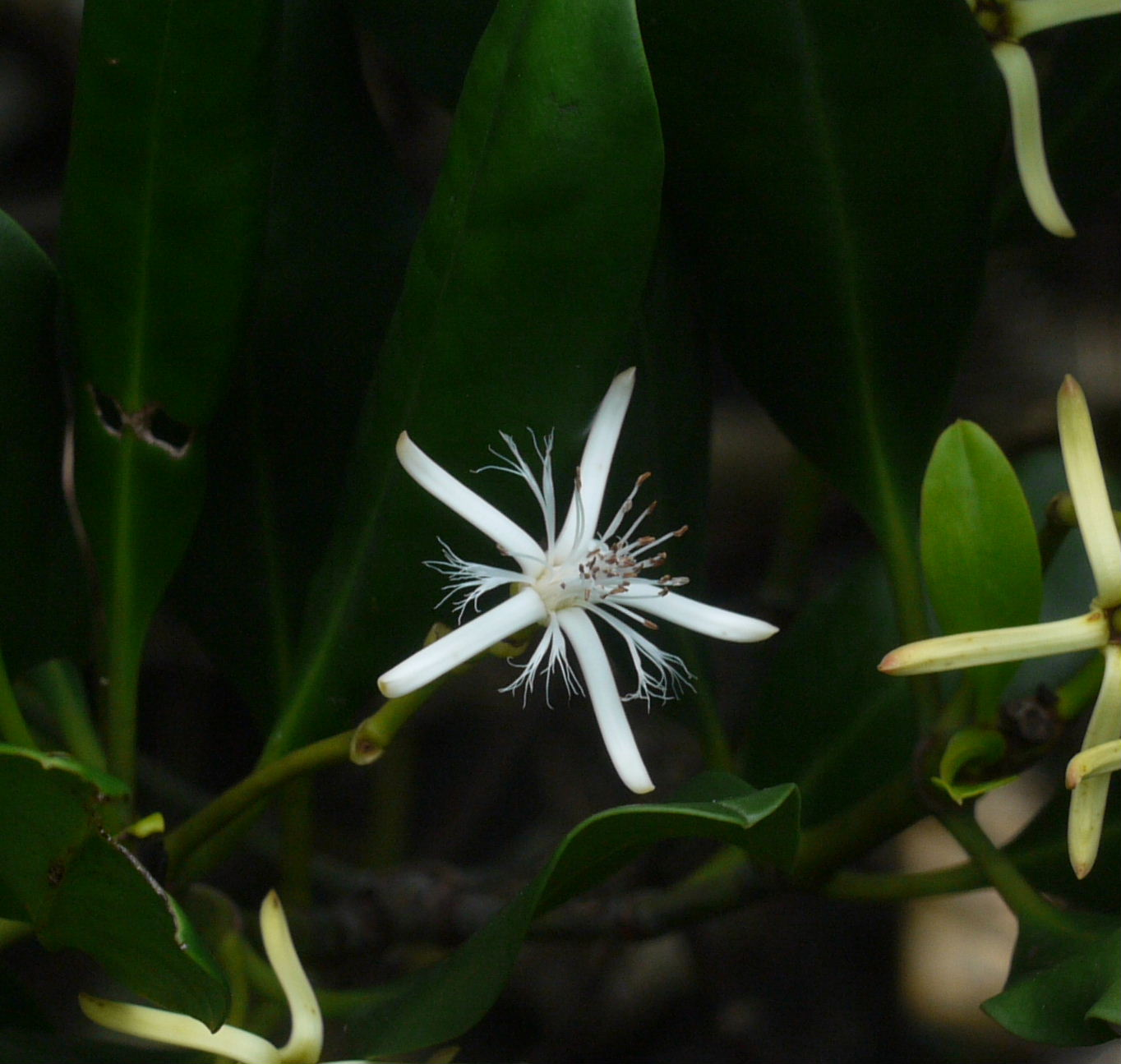 Kandelia_obovata(Rhizophoraceae)